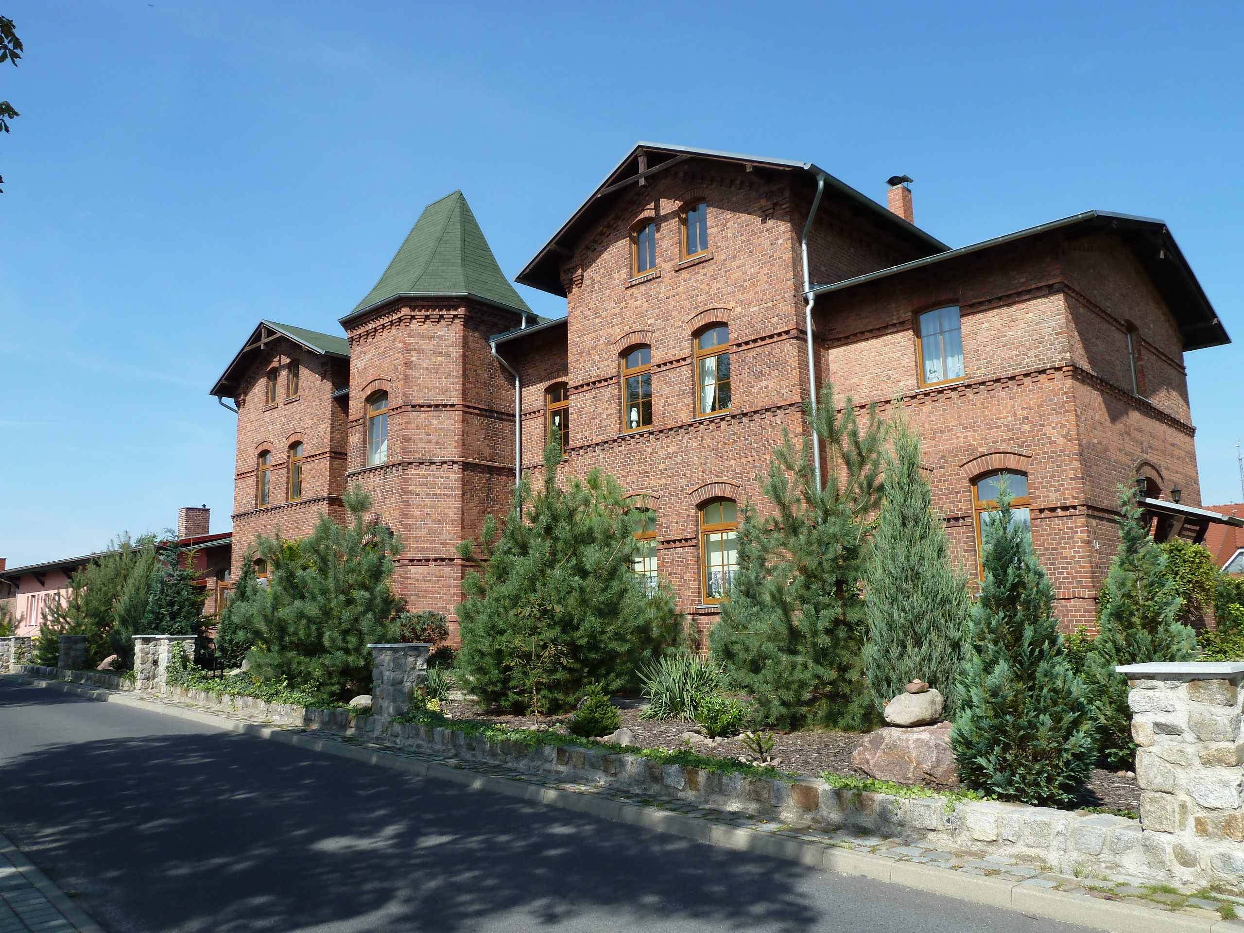 Beeskow train station, station building of the Niederlausitzer Eisenbahn